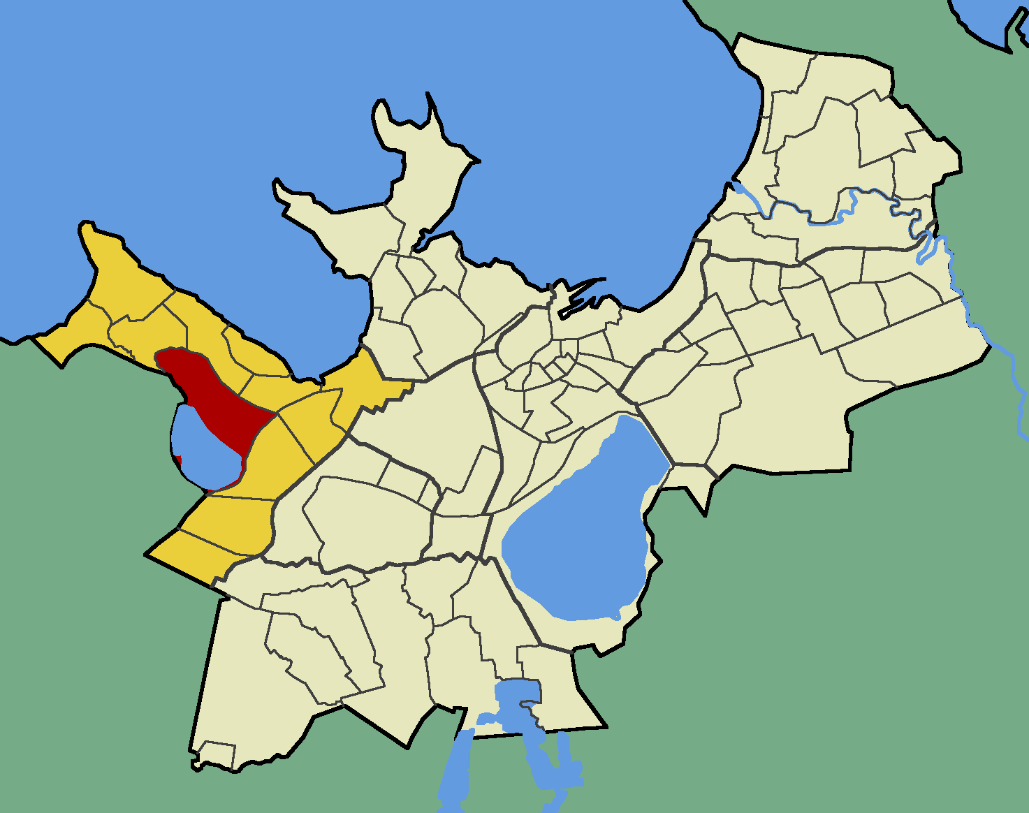 Map of Tallinn (Estonia) with borders of the quarters, Haabersti district and Pikaliiva quarter emphasised